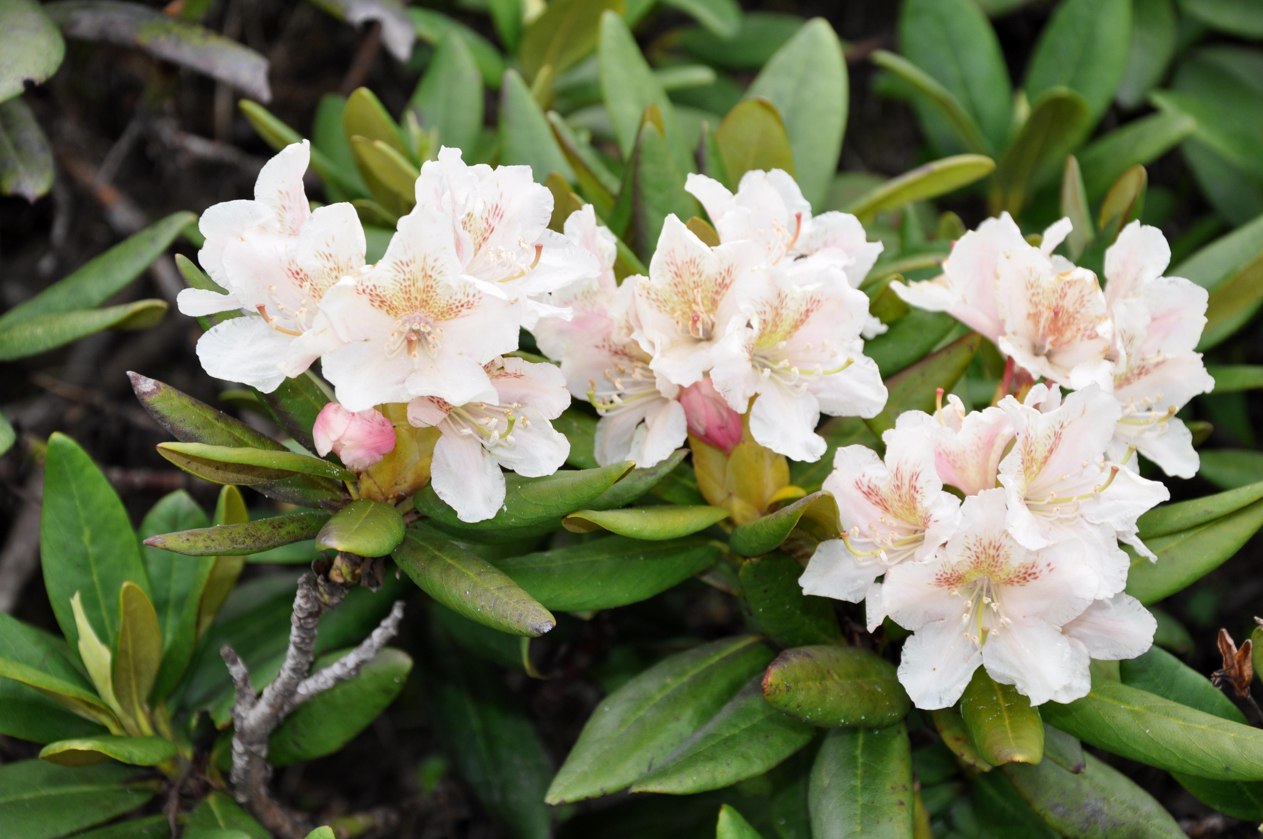 Taken in Datvisjvaripass, Georgien